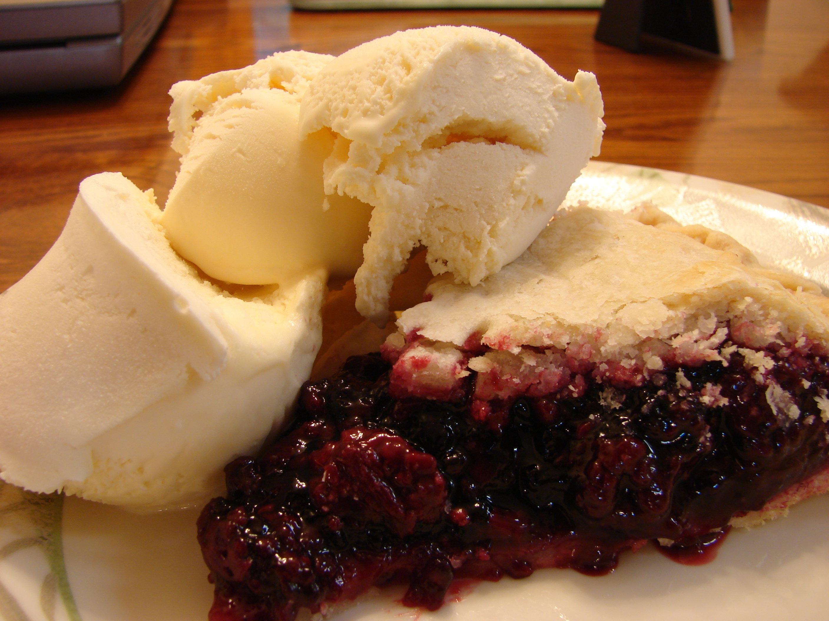 Picture taken by me in September, 2006.